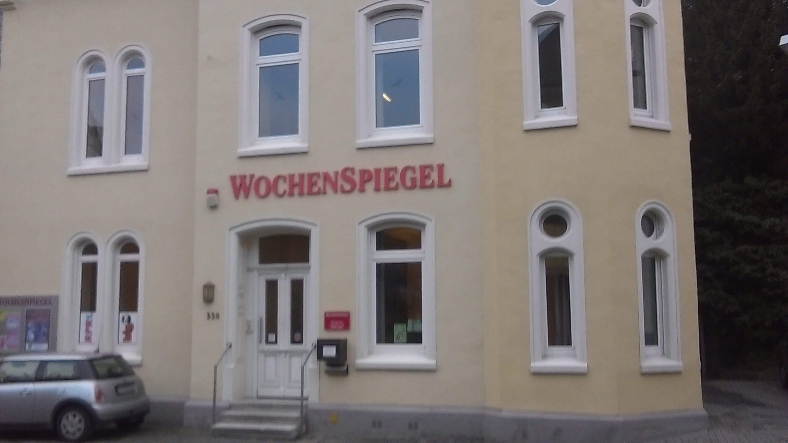 Hauptstraße 330 Idar-Oberstein, Wochenspiegelredaktion